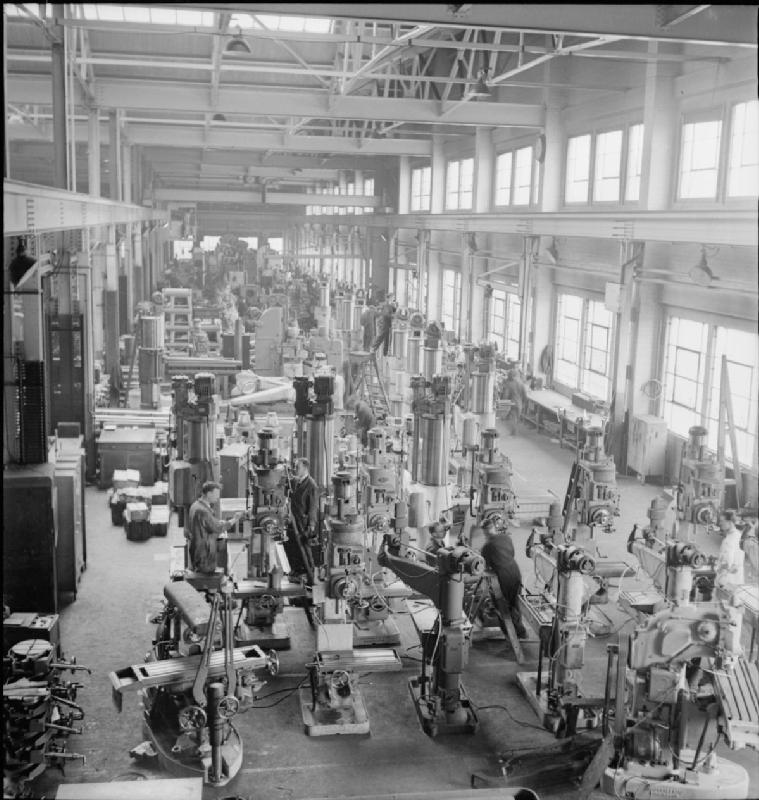 The British Machine Tool Industry- the Manufacture of Industrial Tools and Equipment, UK, 1945 A general view of an assembly bay at a machine tool factory, somewhere in Britain. According to the original caption, "machines being assembled are mostly multi-spindle drills designed for the aircraft industry".